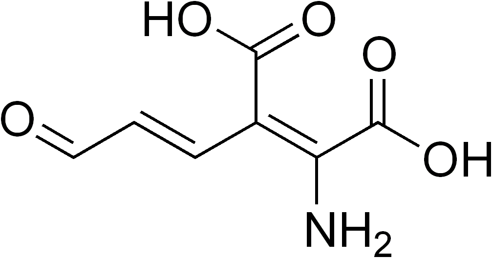 chemical structure of 2-Amino-3-carboxymuconic semialdehyde